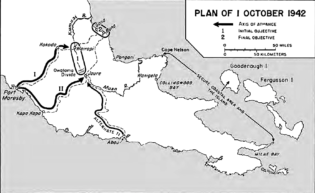 Map 6, Plan of 1 October 1942 showing supply lines Milne Bay to Oro Bay-Gona-Buna operations area.